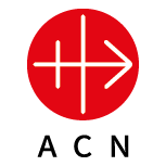 Aid to the Church in Need Logo 2018